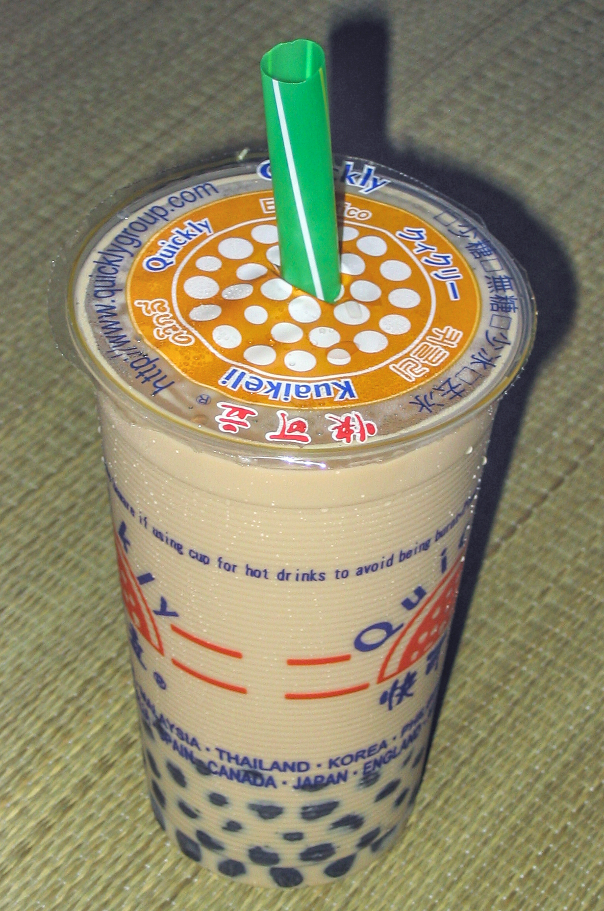 Pearl milk tea with black tapioca pearls visible at the bottom of a disposable plastic cup from Quickly.